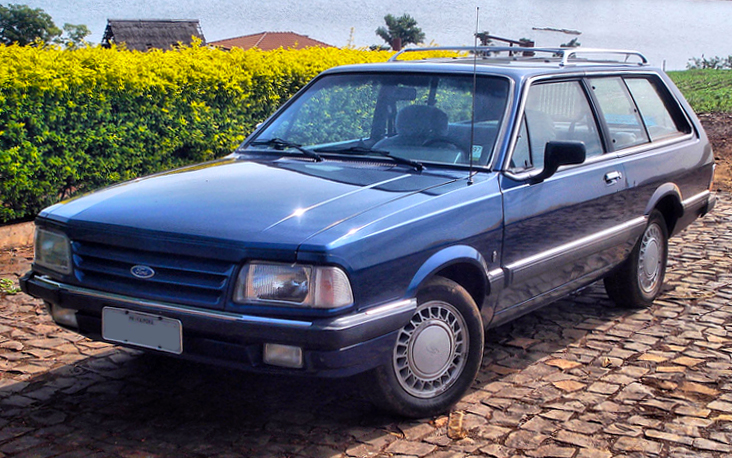 1990 Ford Del Rey Belina Ghia, estate based on the Corcel/Del Rey. Only on its second owner.